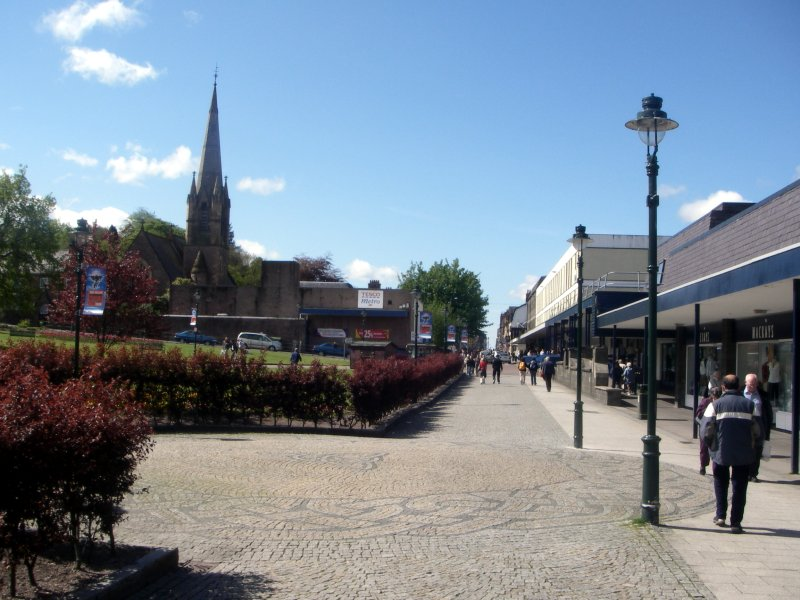 Fort william main street